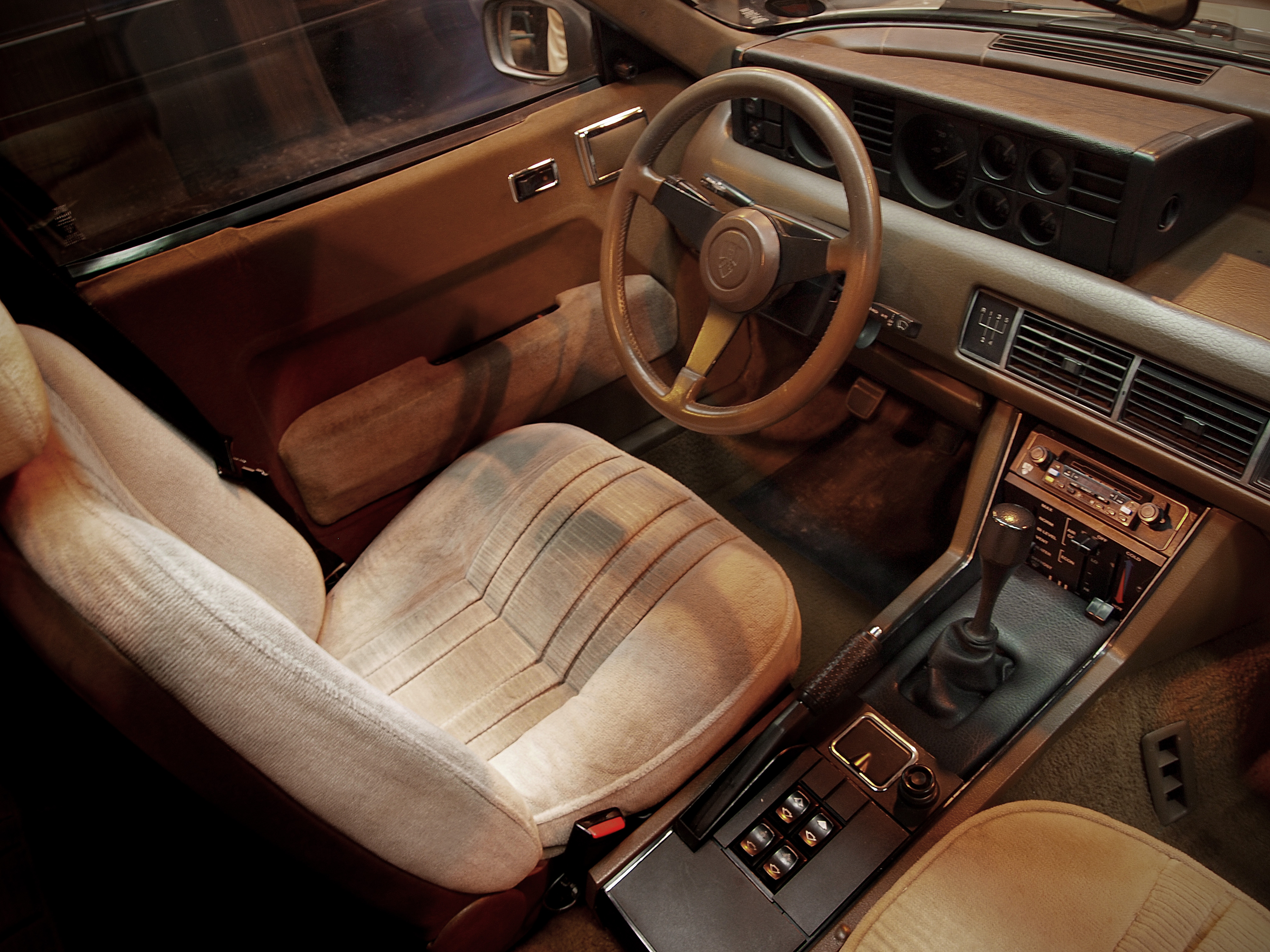 Left hand drive for the US market